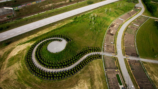 Annestad public gardens